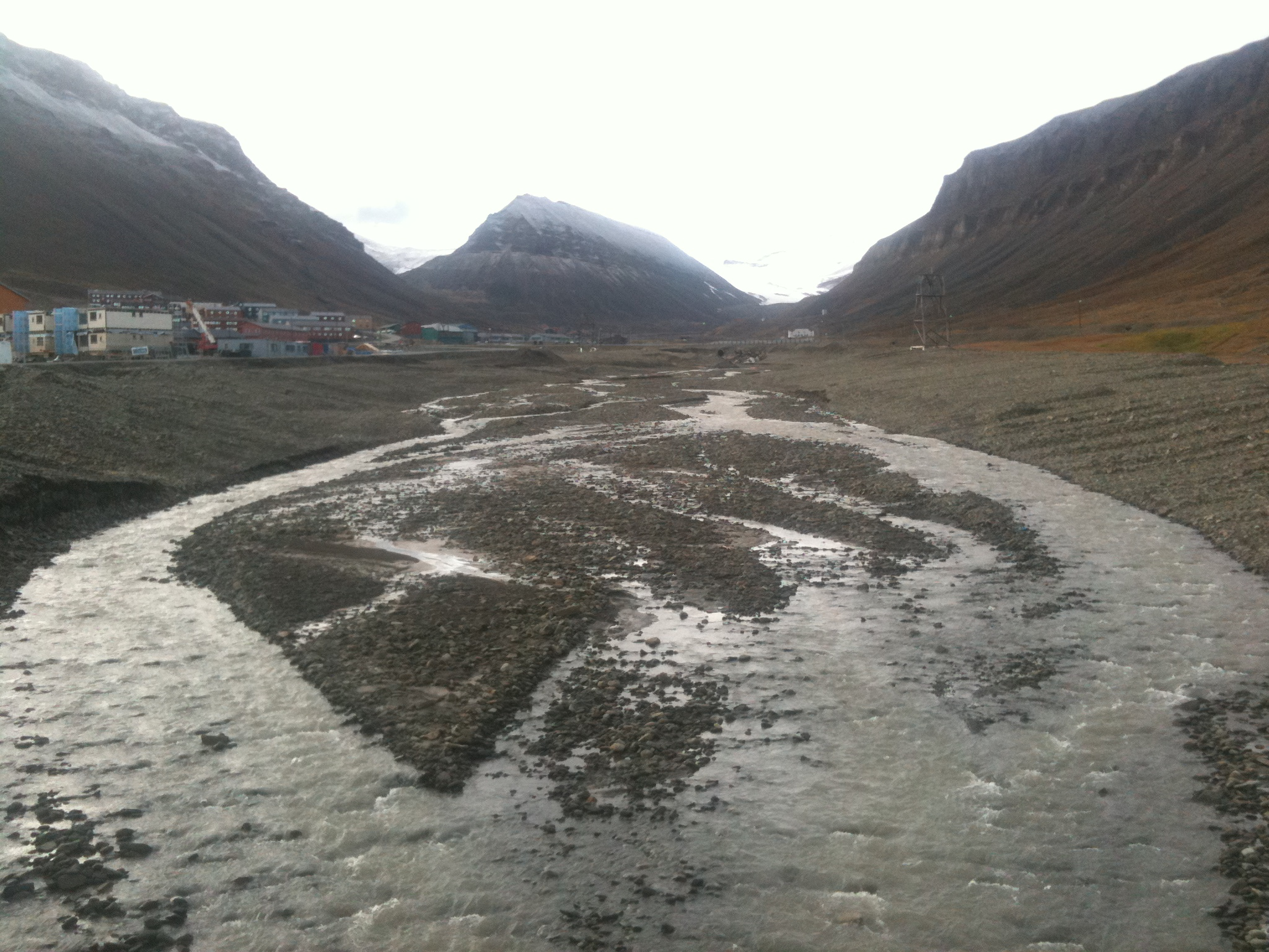 Longyeardalen, Spitsbergen. Longyearbyen to the right.